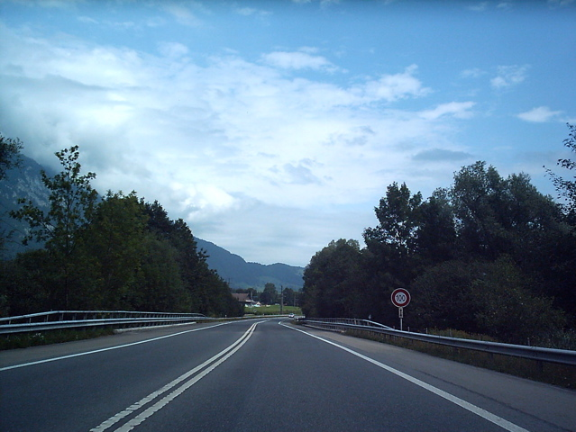 A8 Autostrasse Switzerland. DF08 2004 image.